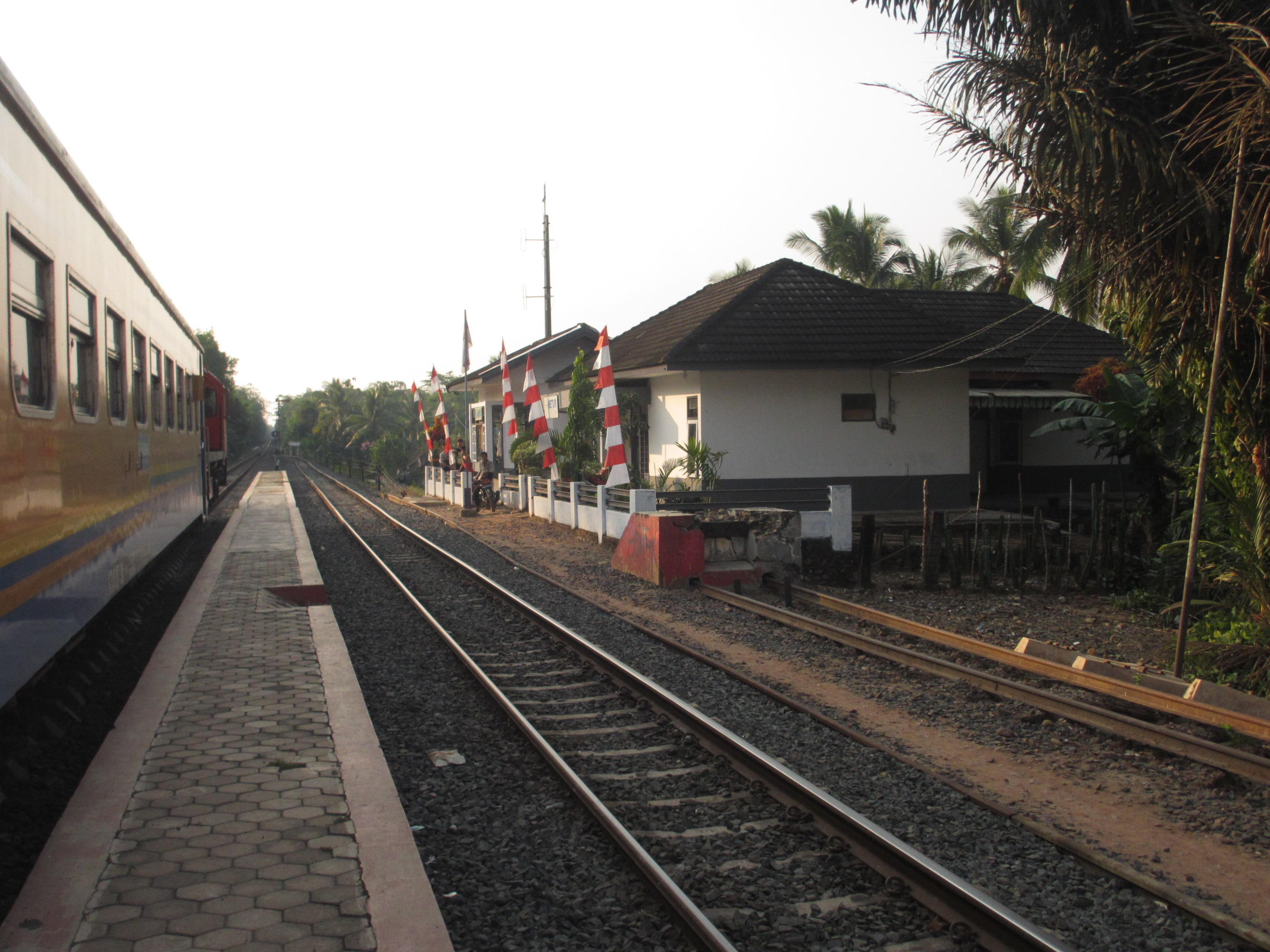 Metur Railway Station.